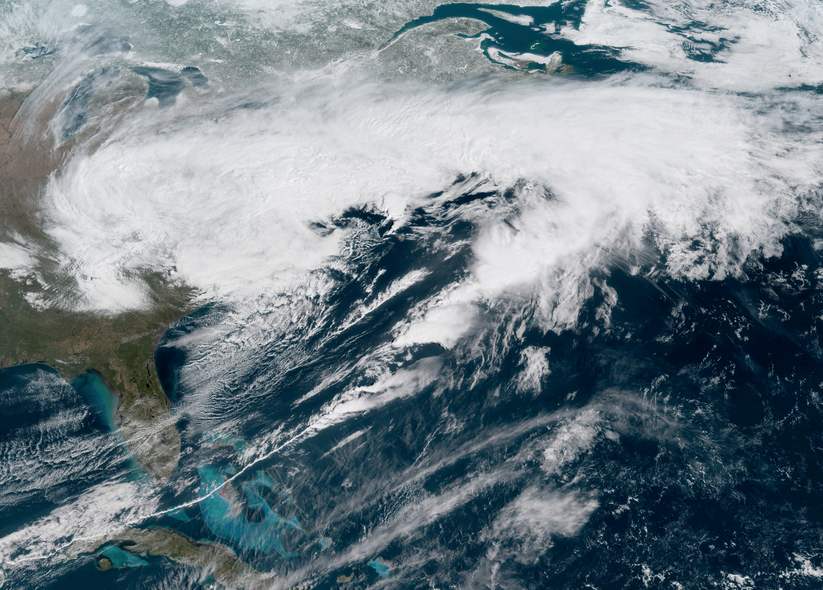 GOES-16 satellite image of a nor'easter affecting the Northeastern U.S on March 21, the fourth such storm to affect the region in a month.